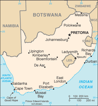 Map of South Africa, showing major cities.